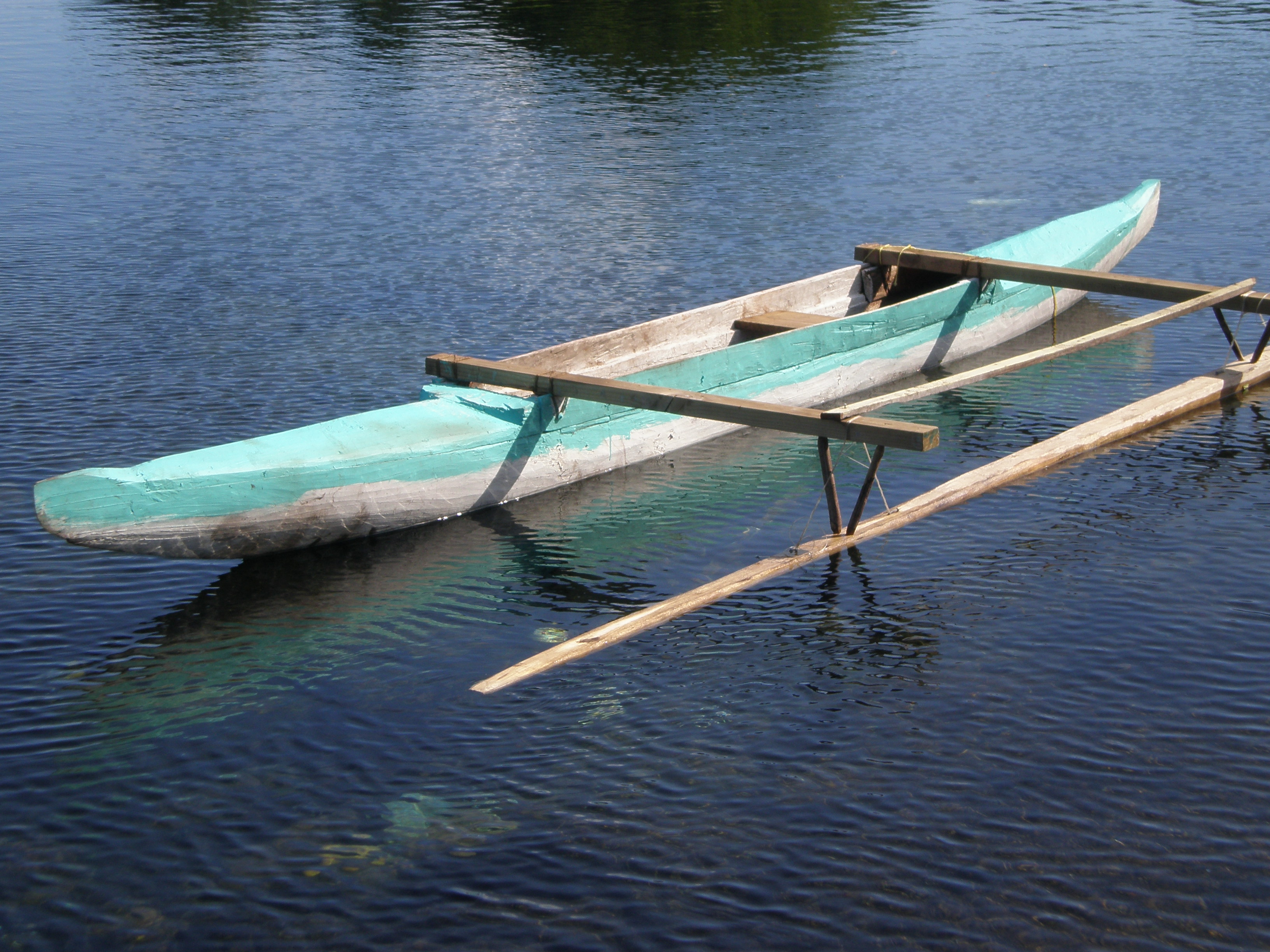 va'a canoe, Matavai village, Savai'i, Samoa, Polynesia